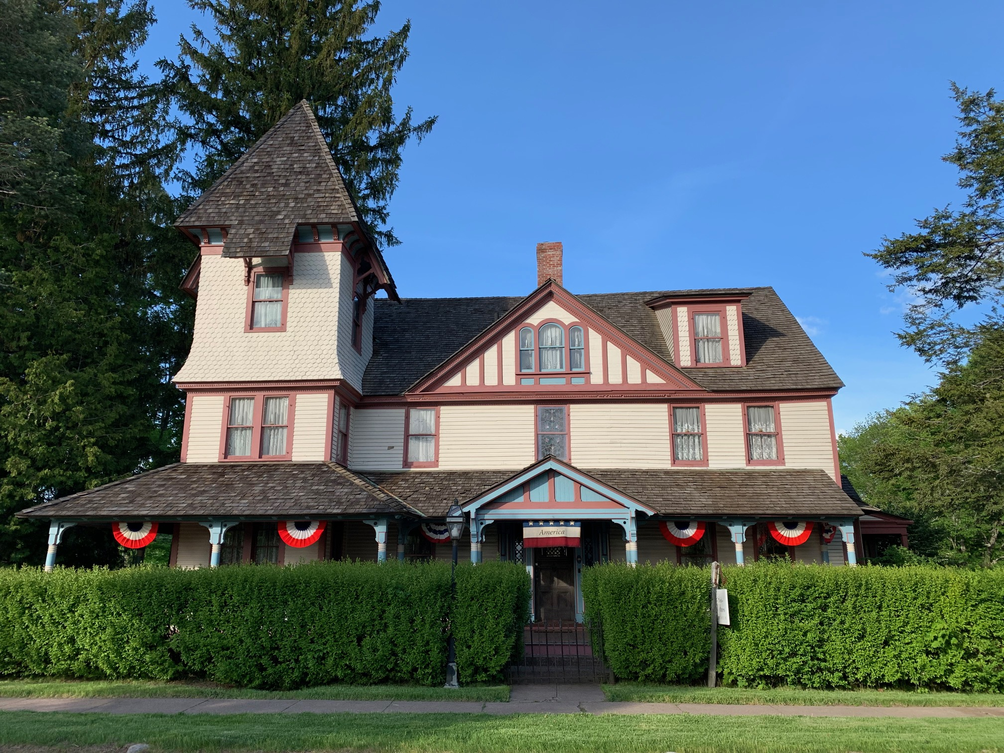 Street front view of the Hicks-Stearns Family Museum